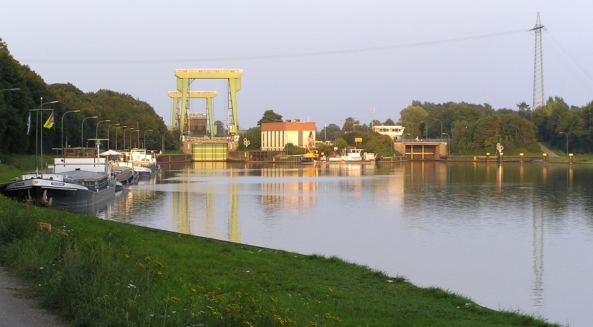 Hünxe sluice at the Wesel-Datteln-Kanal, Germany